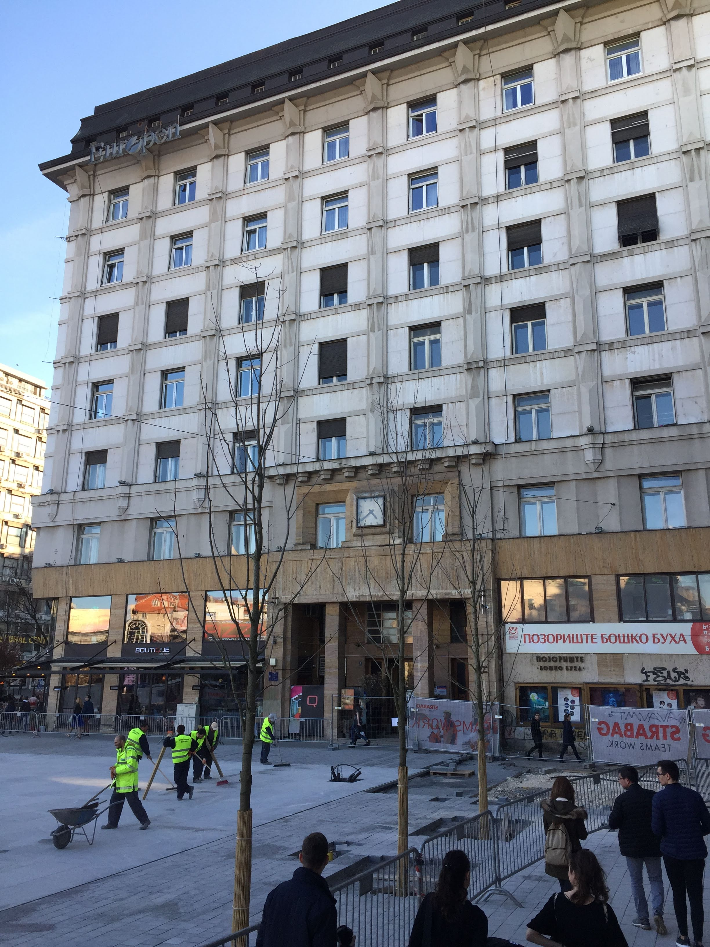 Balgrade "Reuniona" Palace